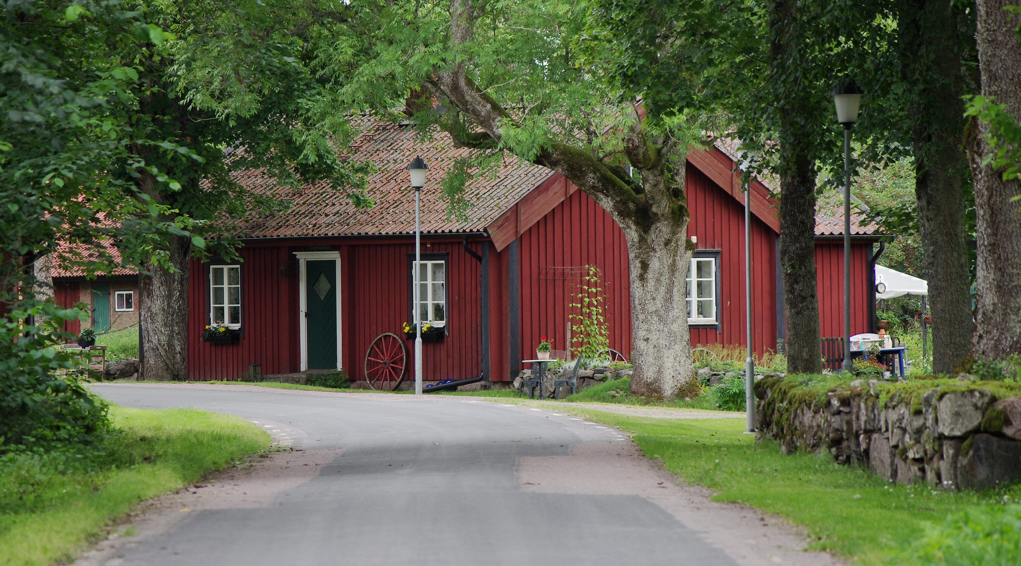 The row village Hömb in Västergötland, Sweden.